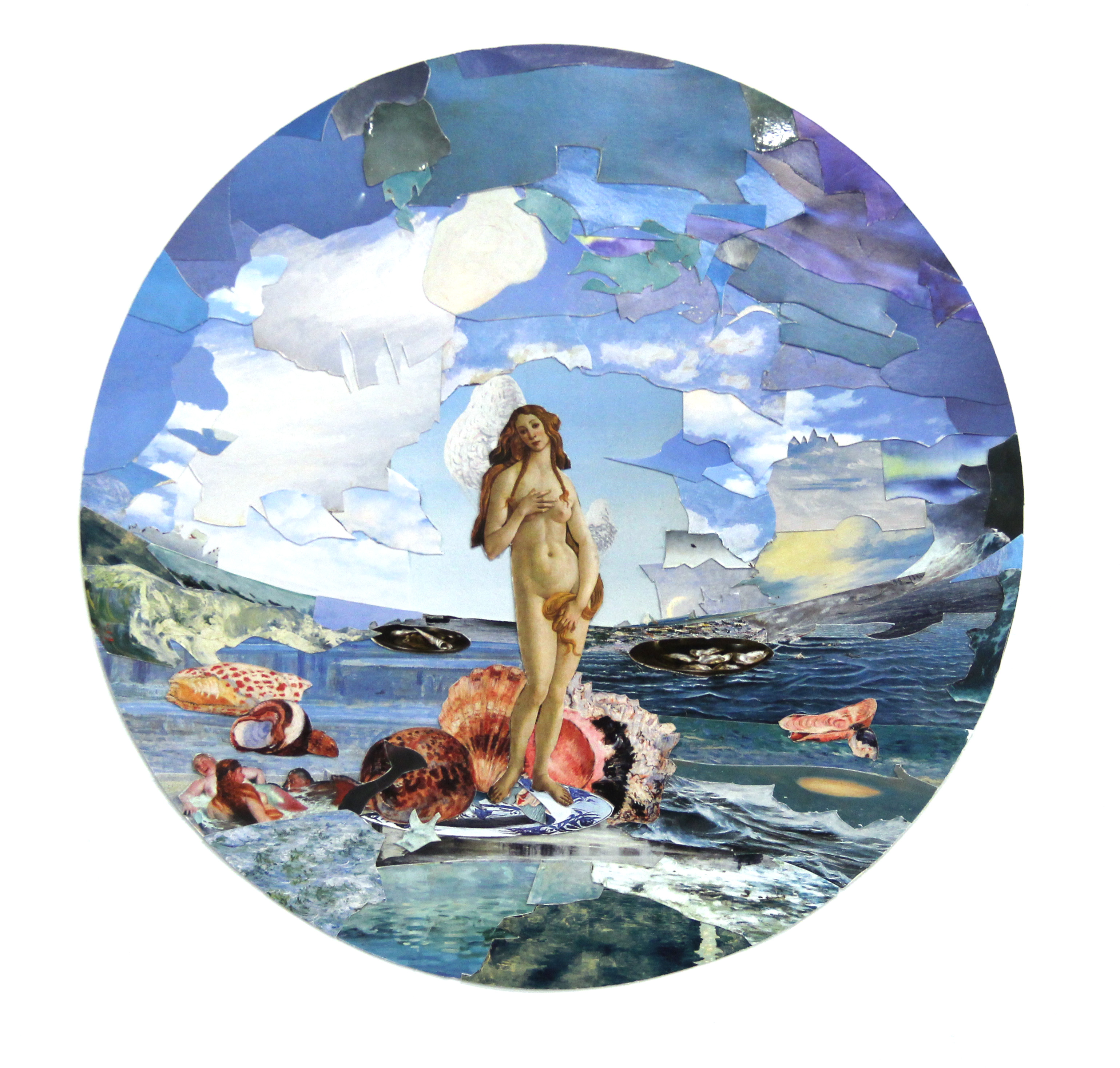 Title: The Venus' Shells . Collage from art postcards, after the painting of Sandro Botticelli "Birth of Venus"